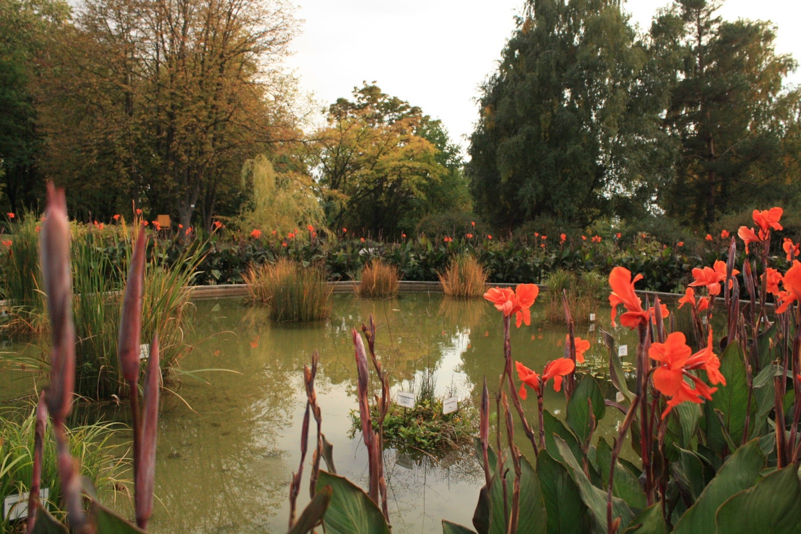 The small pond in the Iaşi Botanical Garden (autumn 2015)